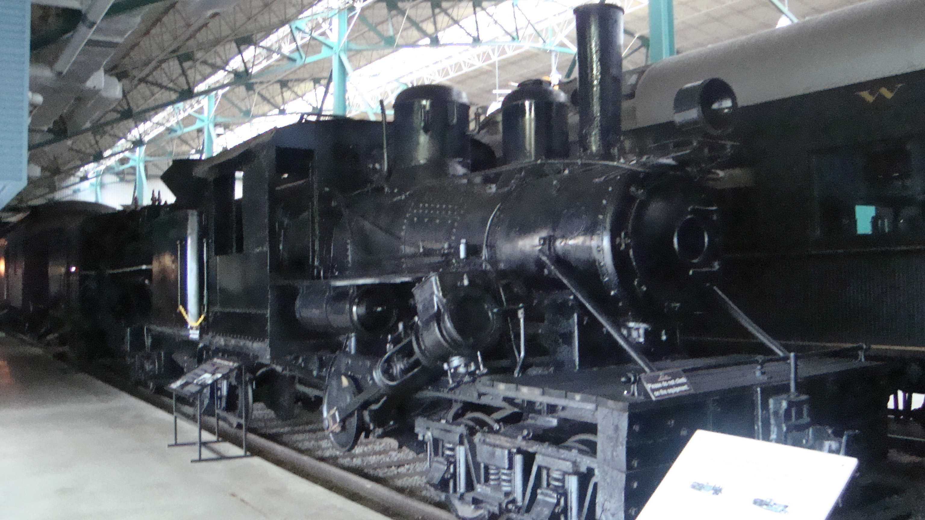 One of 3 geared locomotives in the museum